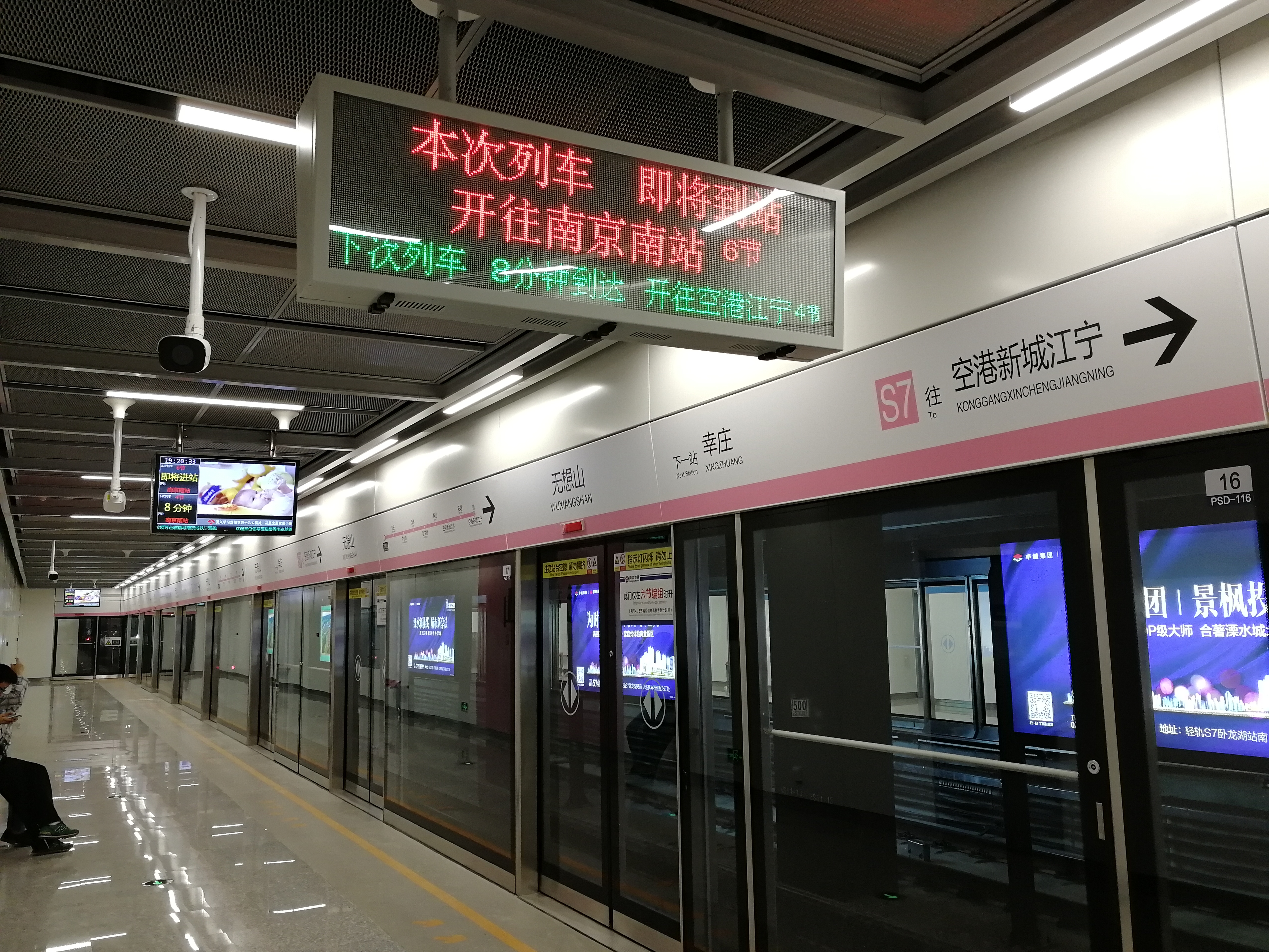 Nanjing Metro direct train from Wuxiangshan to Nanjing South Railway Station